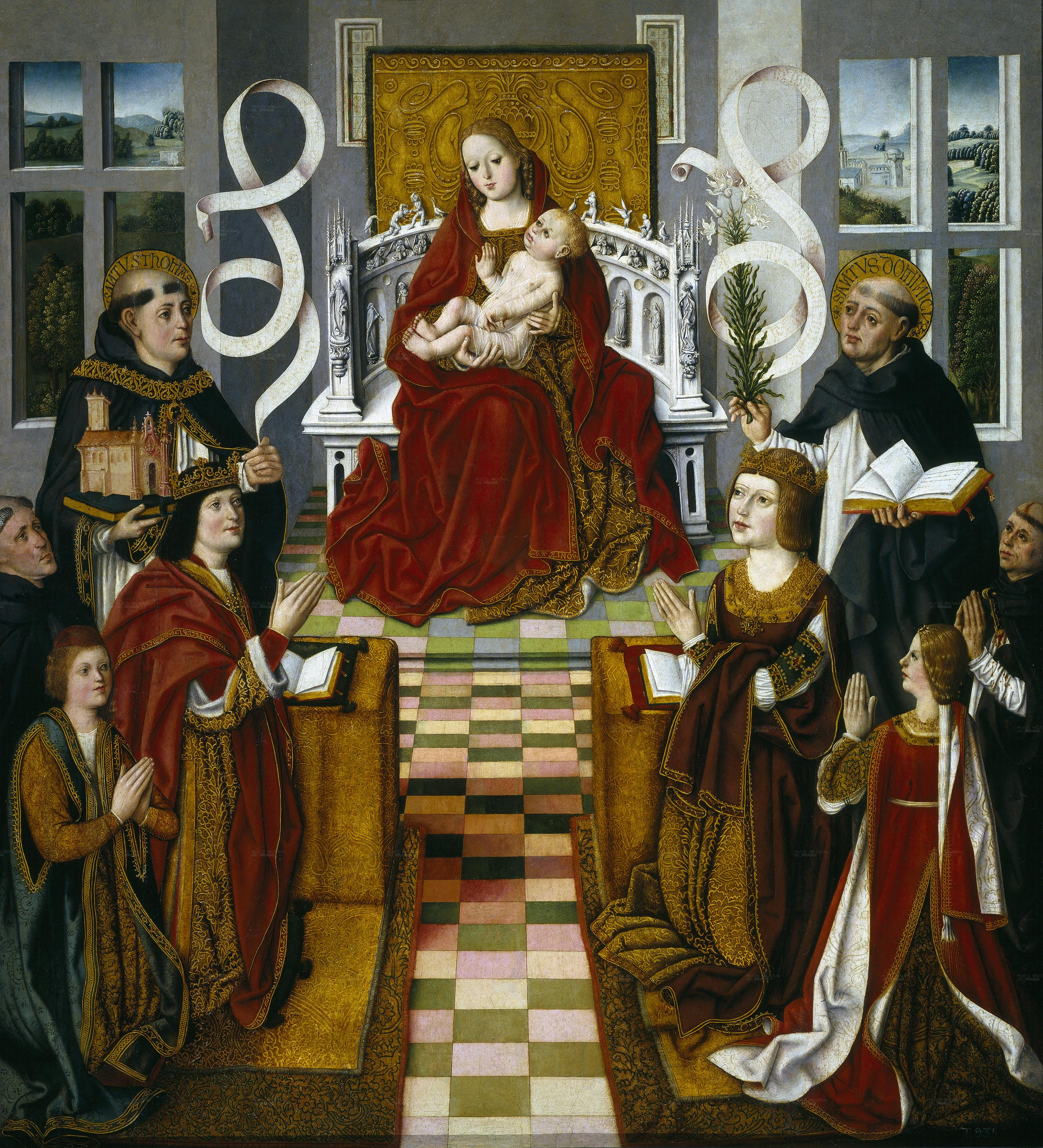 The Madonna of the Catholic Monarchs. Left: Isabella the Catholic; Right: Ferdinand the Catholic